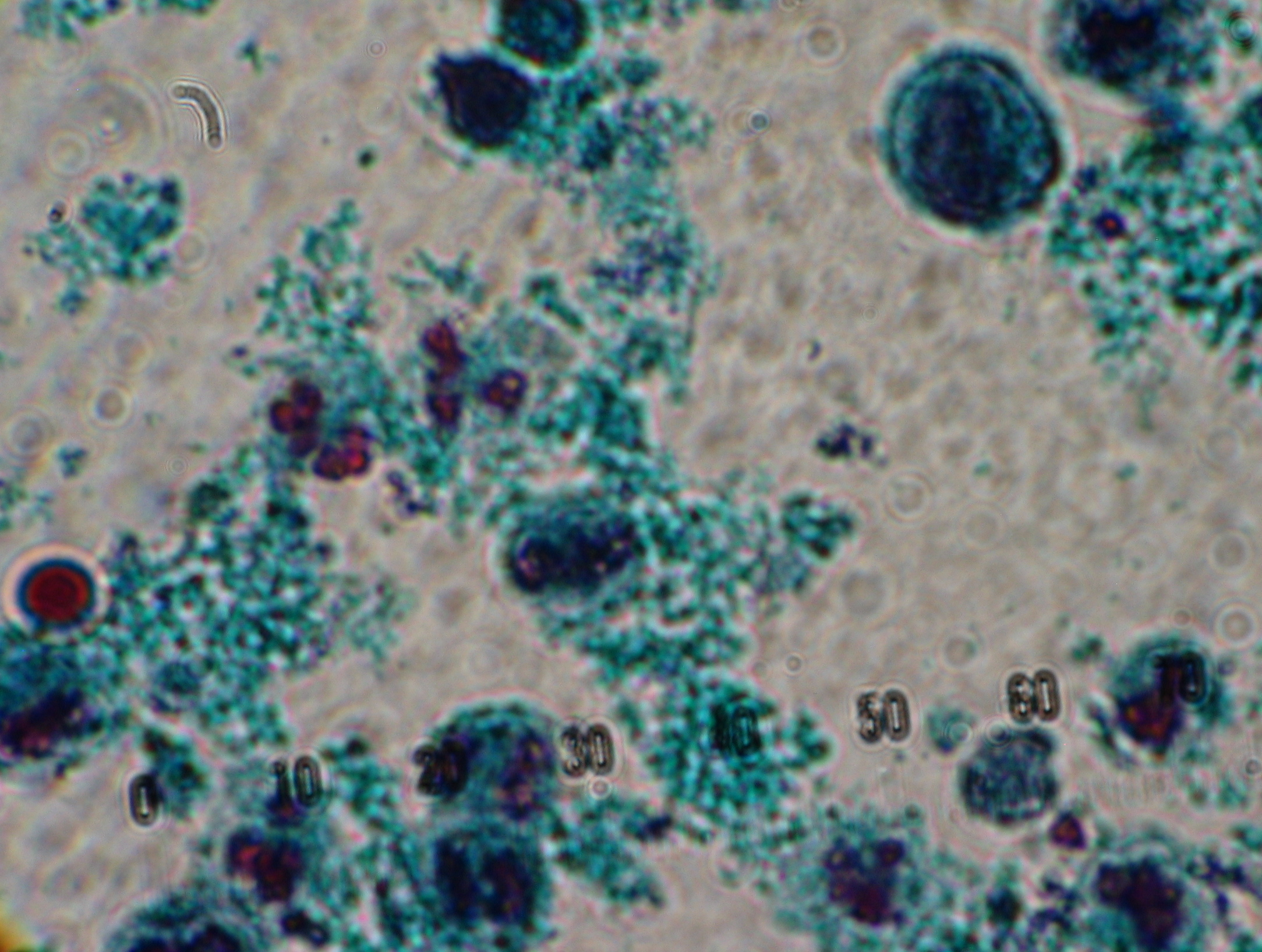 White blood cells in a stool sample stained with Methylene blue (40x).